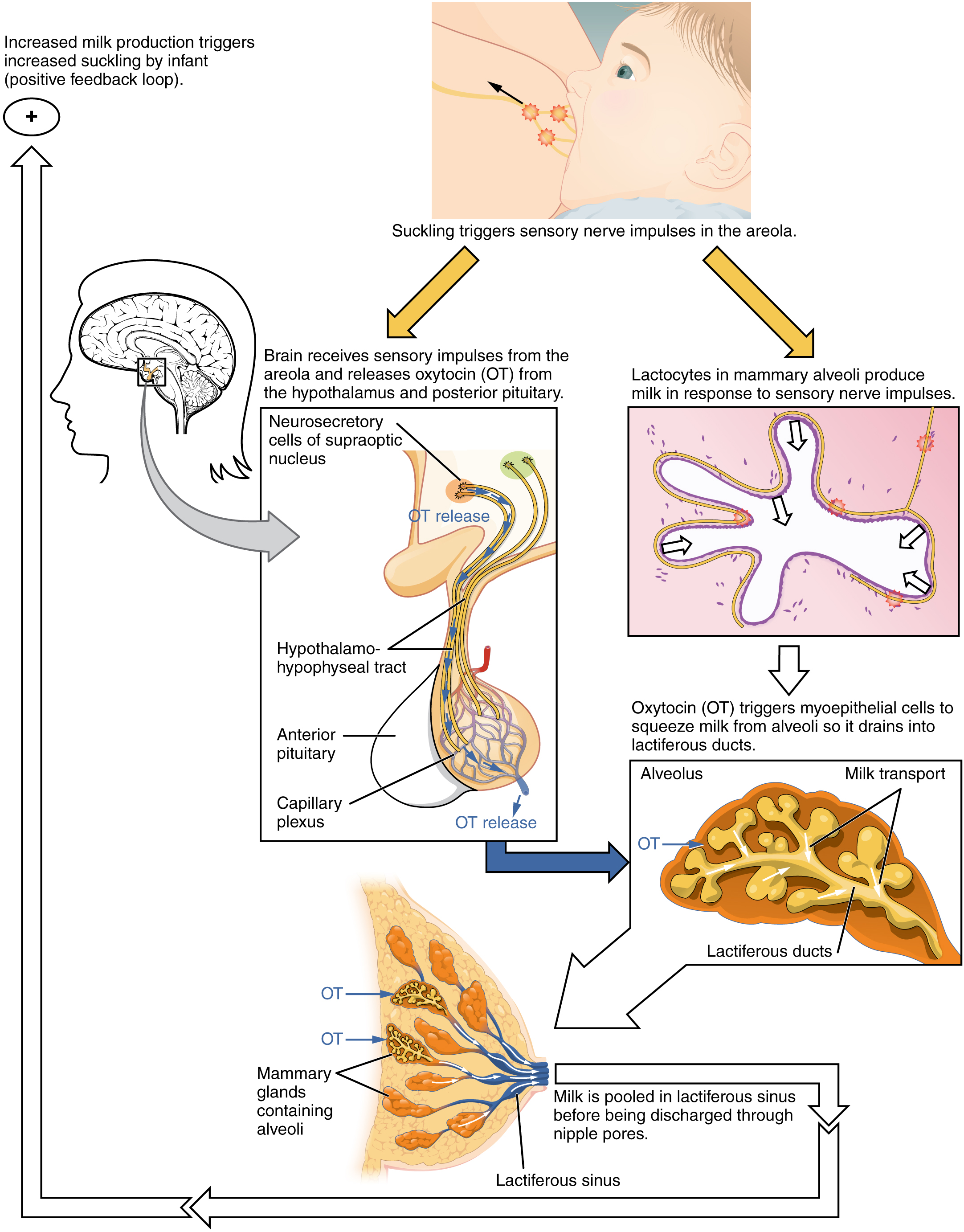 Illustration from Anatomy & Physiology, Connexions Web site. Jun 19, 2013.